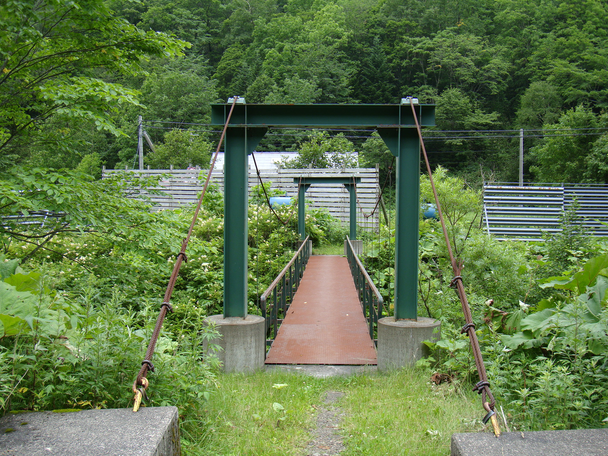 Kamikoshi Signal Base